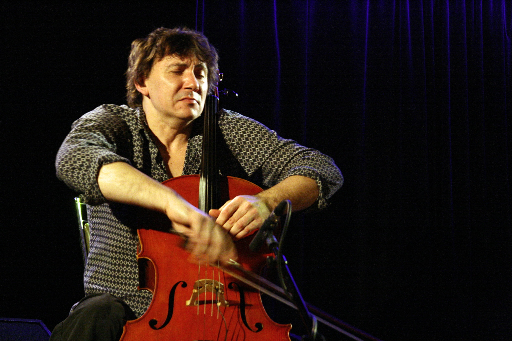 French jazz cellist Vincent Courtois, performing at Le Triton, Les Lilas (France)